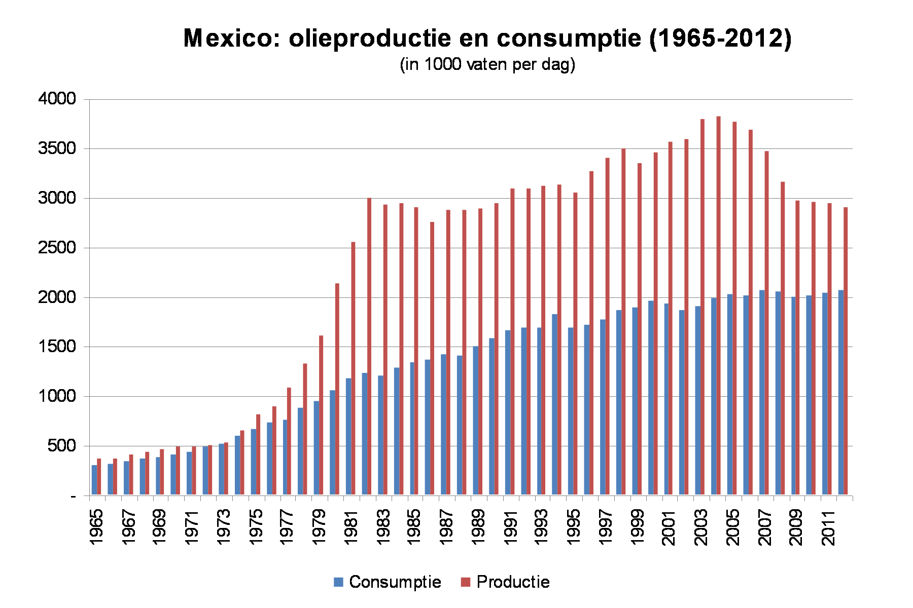 Table with Mexican oil production and consumption over the period 1965-2012. Source: BP Statistical Review of World Energy 2013.